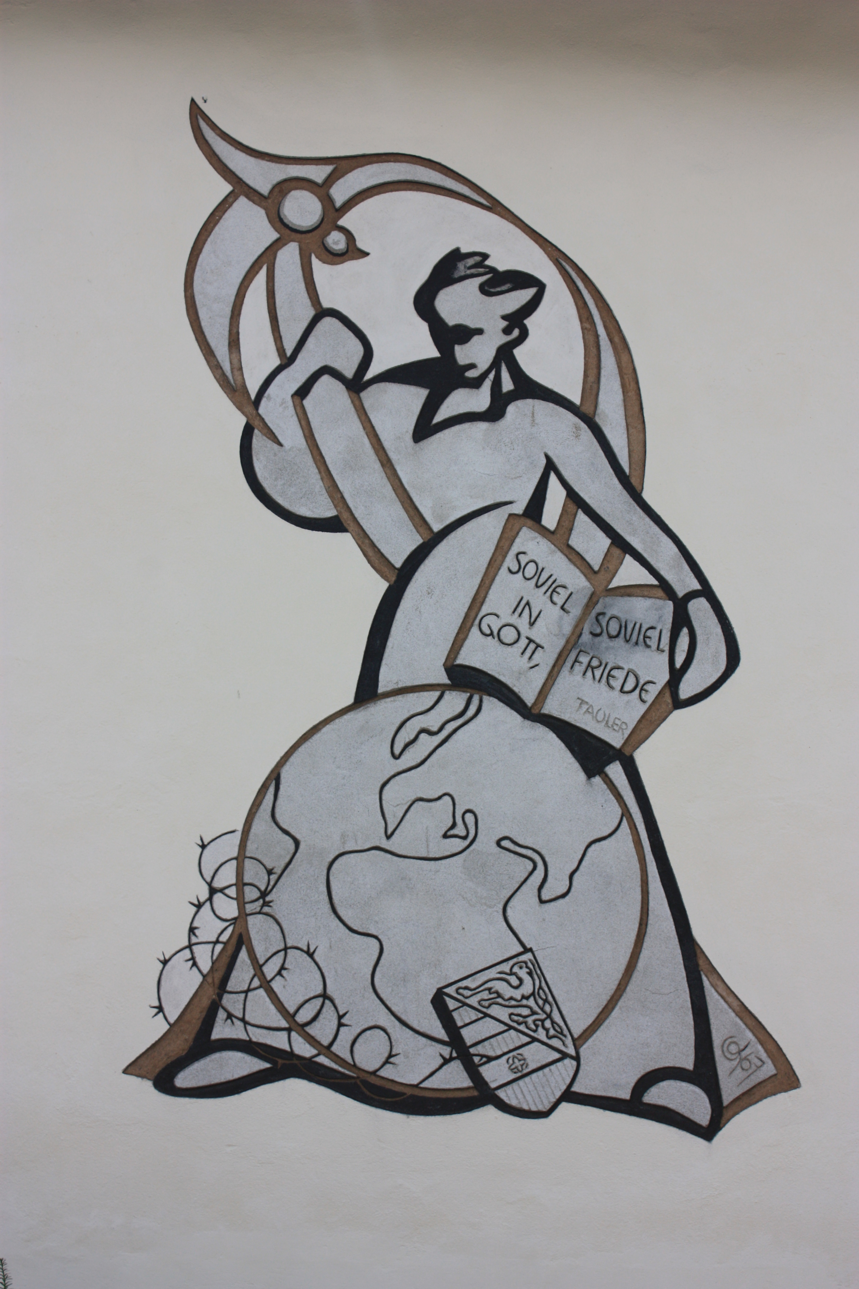 rectory of St. Andrew, Lienz - detail: sgraffito by Oswald Kollreider Locality:Pfarrgasse Community:Lienz